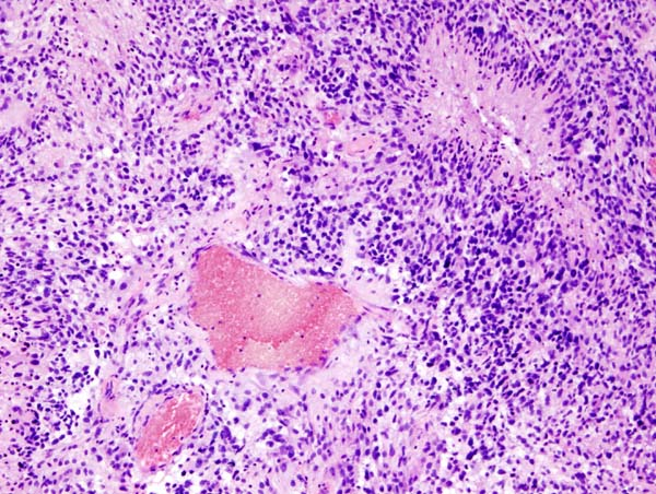 Histopathological image of cerebral glioblastoma. The same case as shown in a file "Glioblastoma_(1).jpg". Hematoxylin & esoin stain.